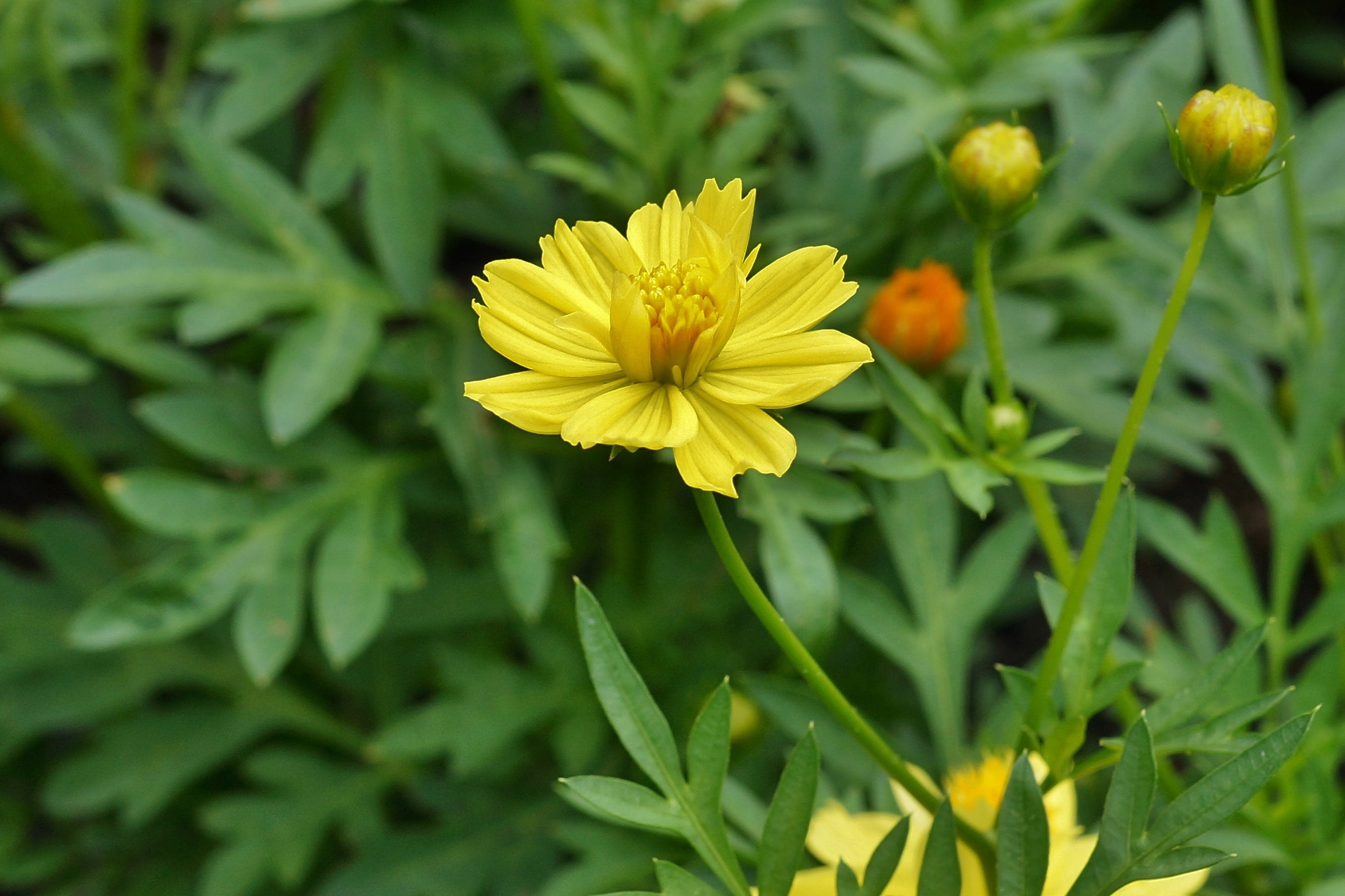 Sulfur cosmos, yellow cosmos